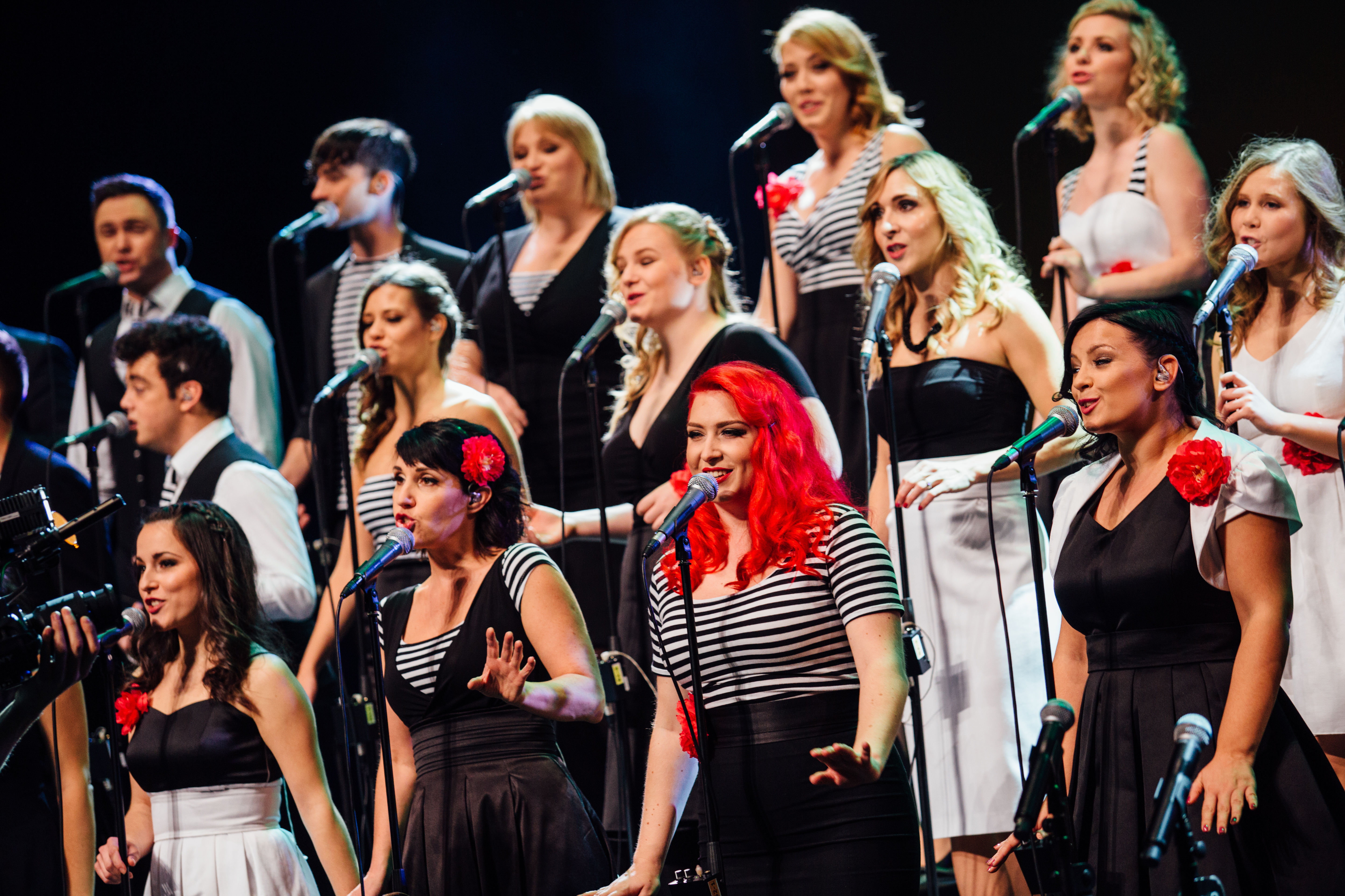 Sopranos being charming as usual